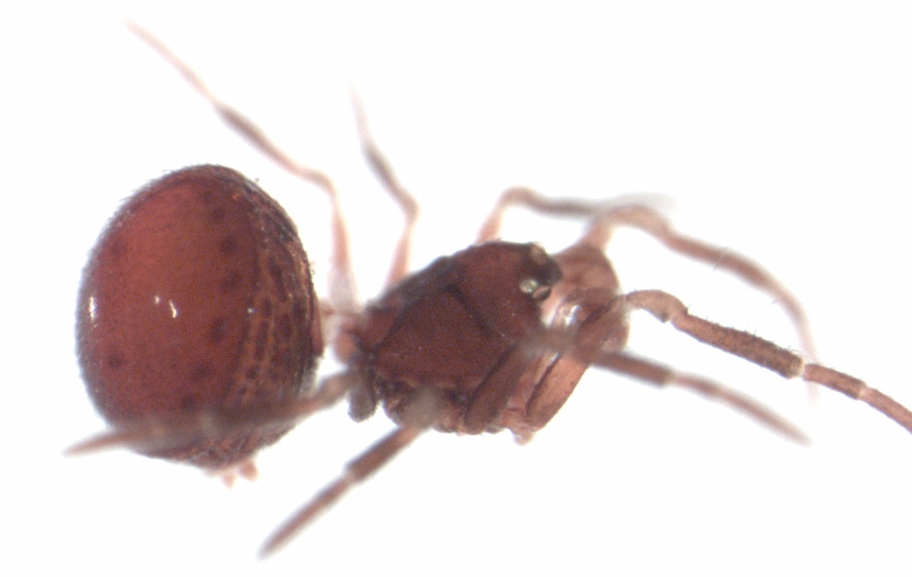 adult male Zealanapis sp. (lateral)